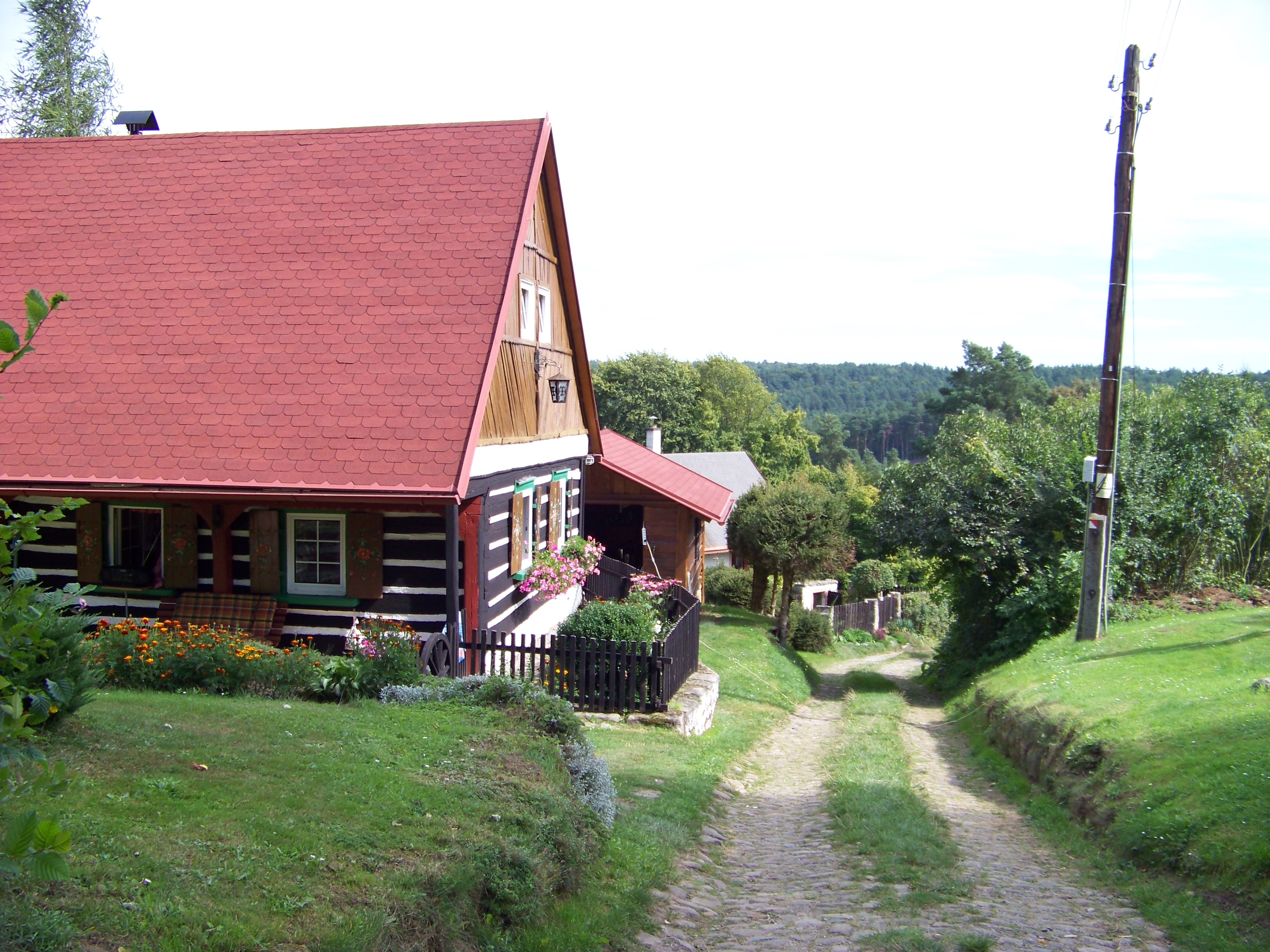 Dubá-Plešivec, Česká Lípa District, Liberec Region, Czech Republic. A way at the house No. 24. Template:Cultural Heritage Czech Repugblic